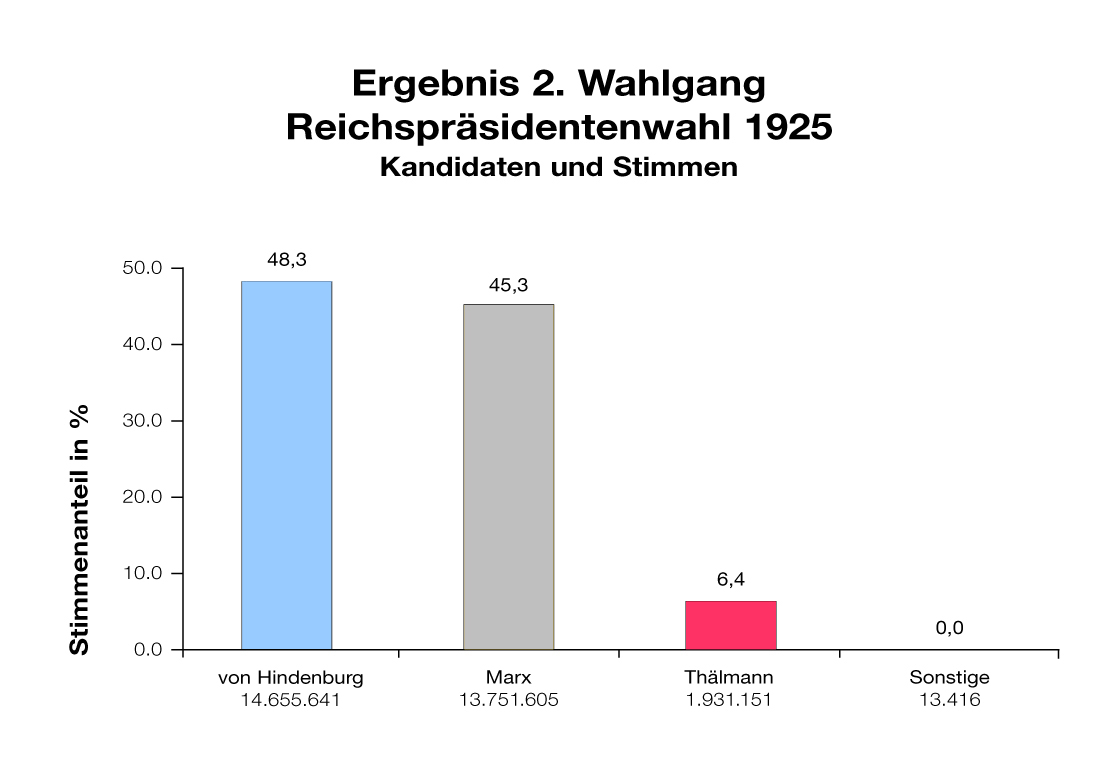 Election of Reichs President / President of the German Reich. Results of second ballot, 26 April 1925.